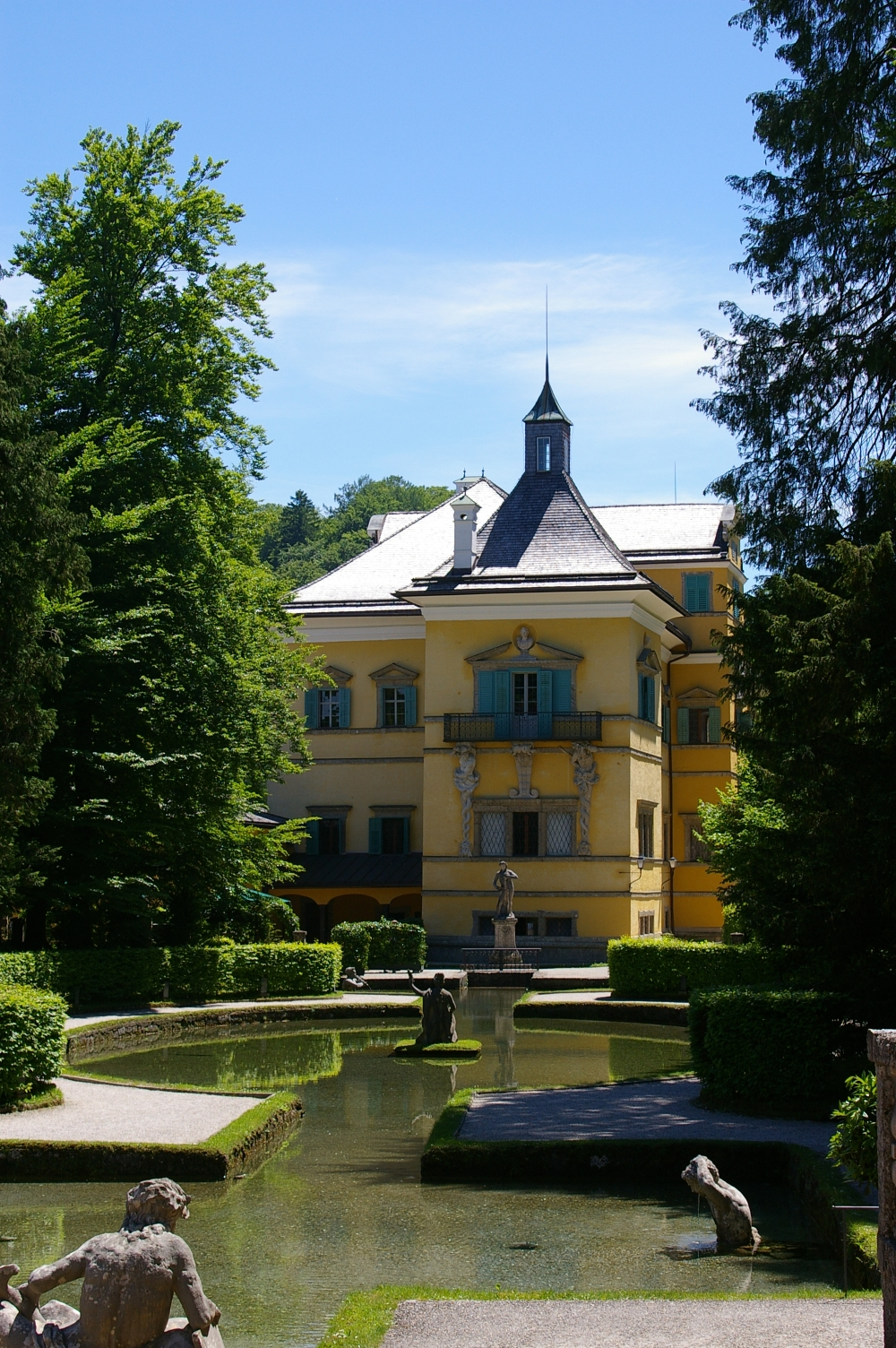 Austria, Salzburg, Hellbrunn Palace